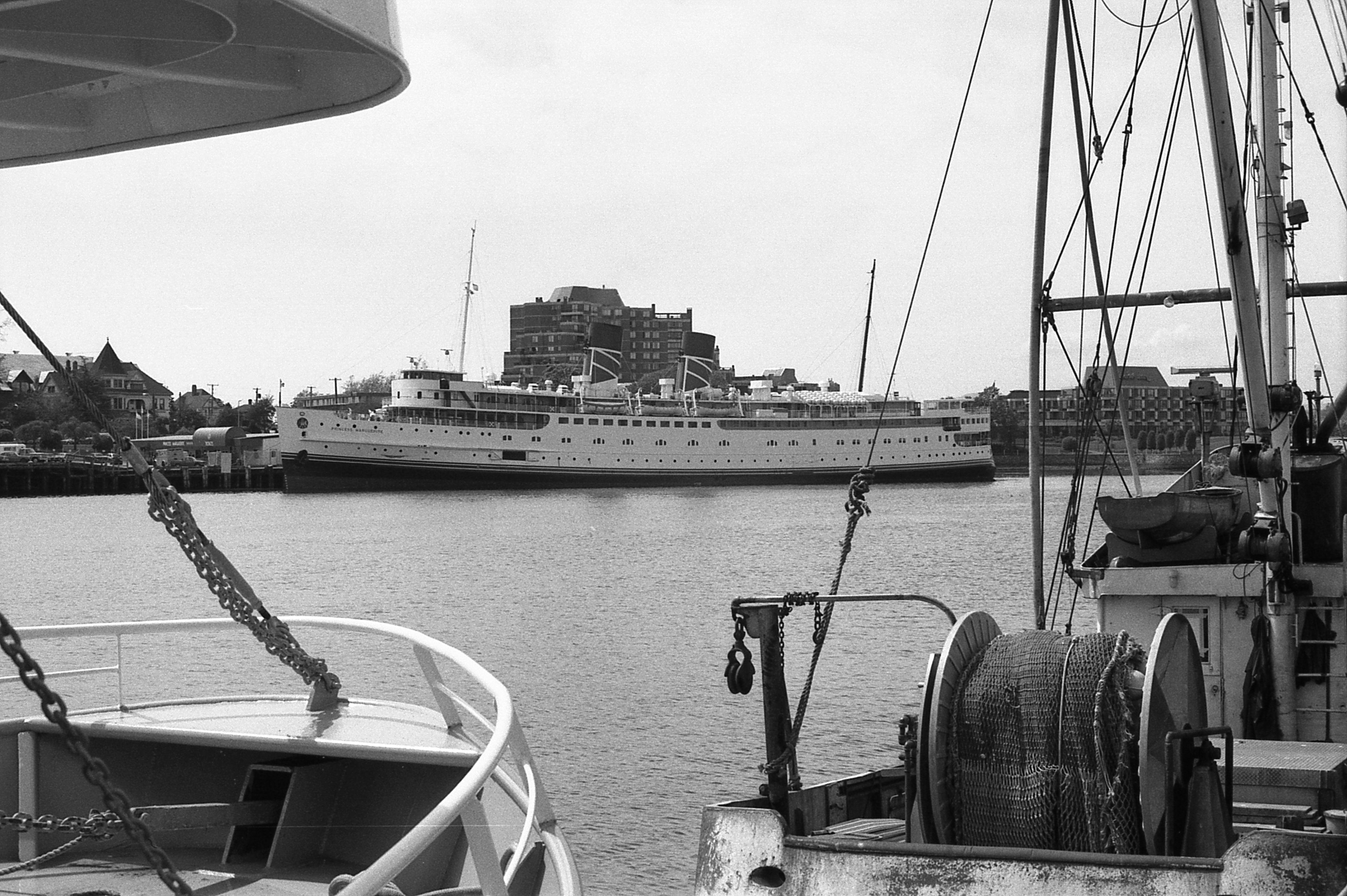 The British Columbia Steamship Company Seattle - Victoria - Vancouver Cruise Liner "Princess Marguerite II" moored in Victoria Harbour BC Canada in the late 1970s. After several cahnges of fortune this lovely old ship, finally ended up in the far East, and on April 19, 1996, she was towed to the Alang ship-breaking yards near the port city of Bhavnagar in the State of Gujarat on the West Coast of India. There, in 1997, Arya Steel Ltd. broke her up. Camera: Olympus OM1 35mm SLR. Film: Kodak.